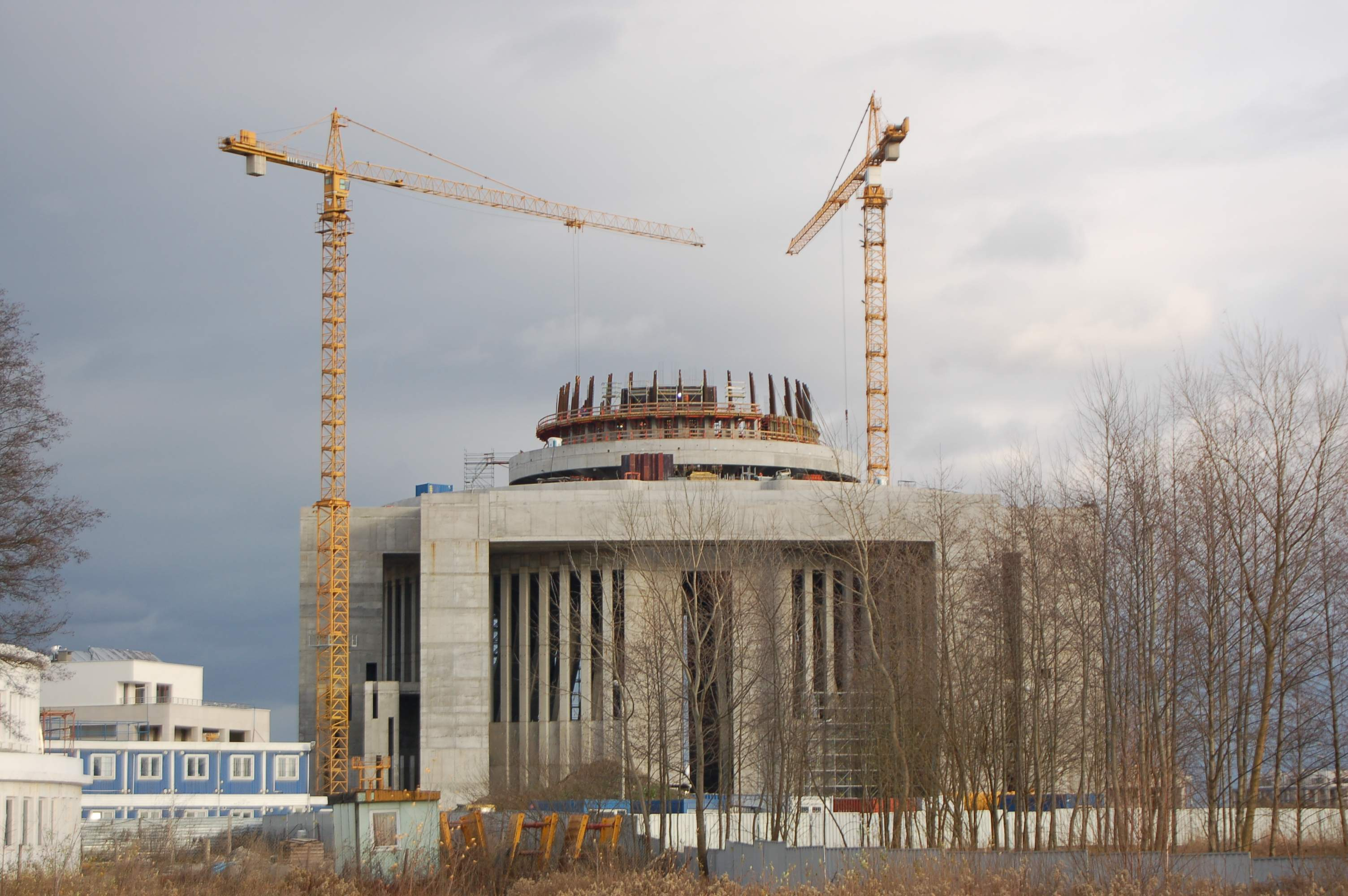 The church "Świątynia Opatrzności Bożej" under construction, Miasteczko Wilanow, Warsaw, Poland